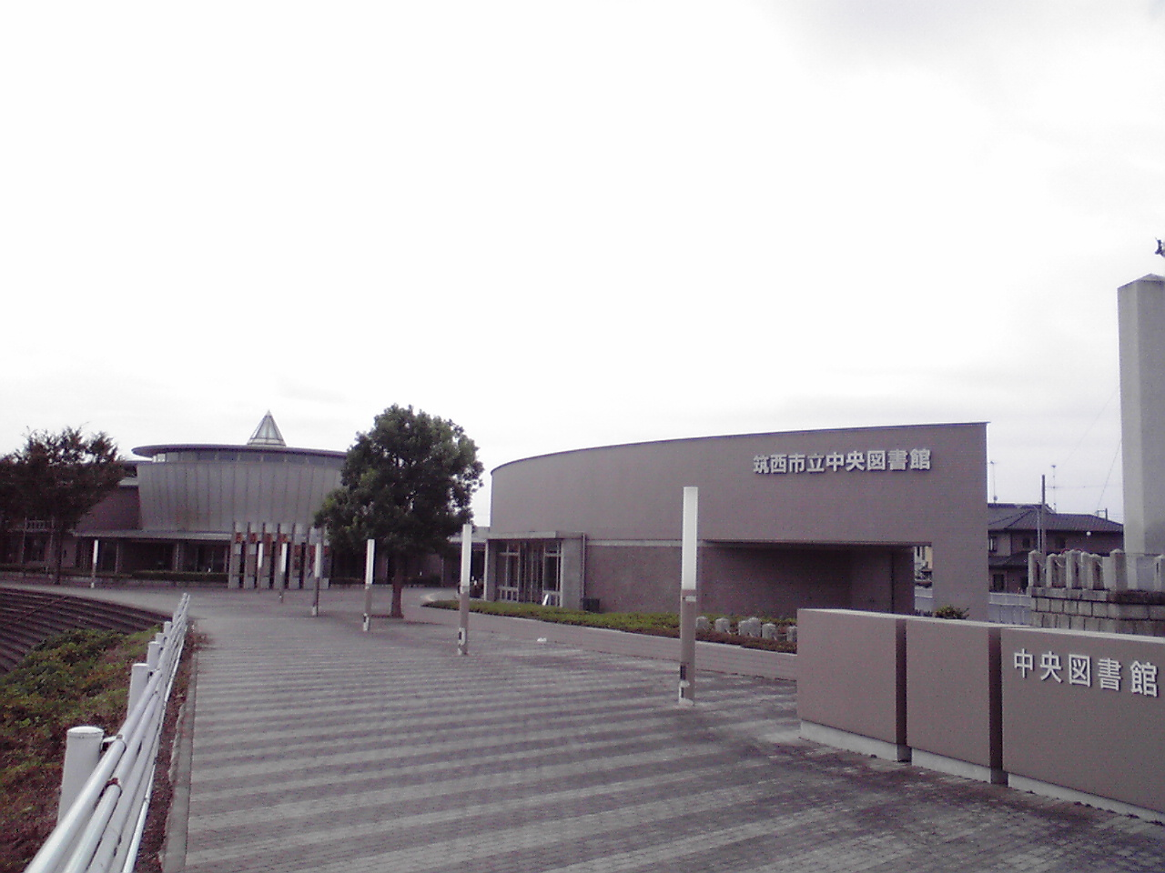 This is a library in Chikusei, Ibaraki, Japan.